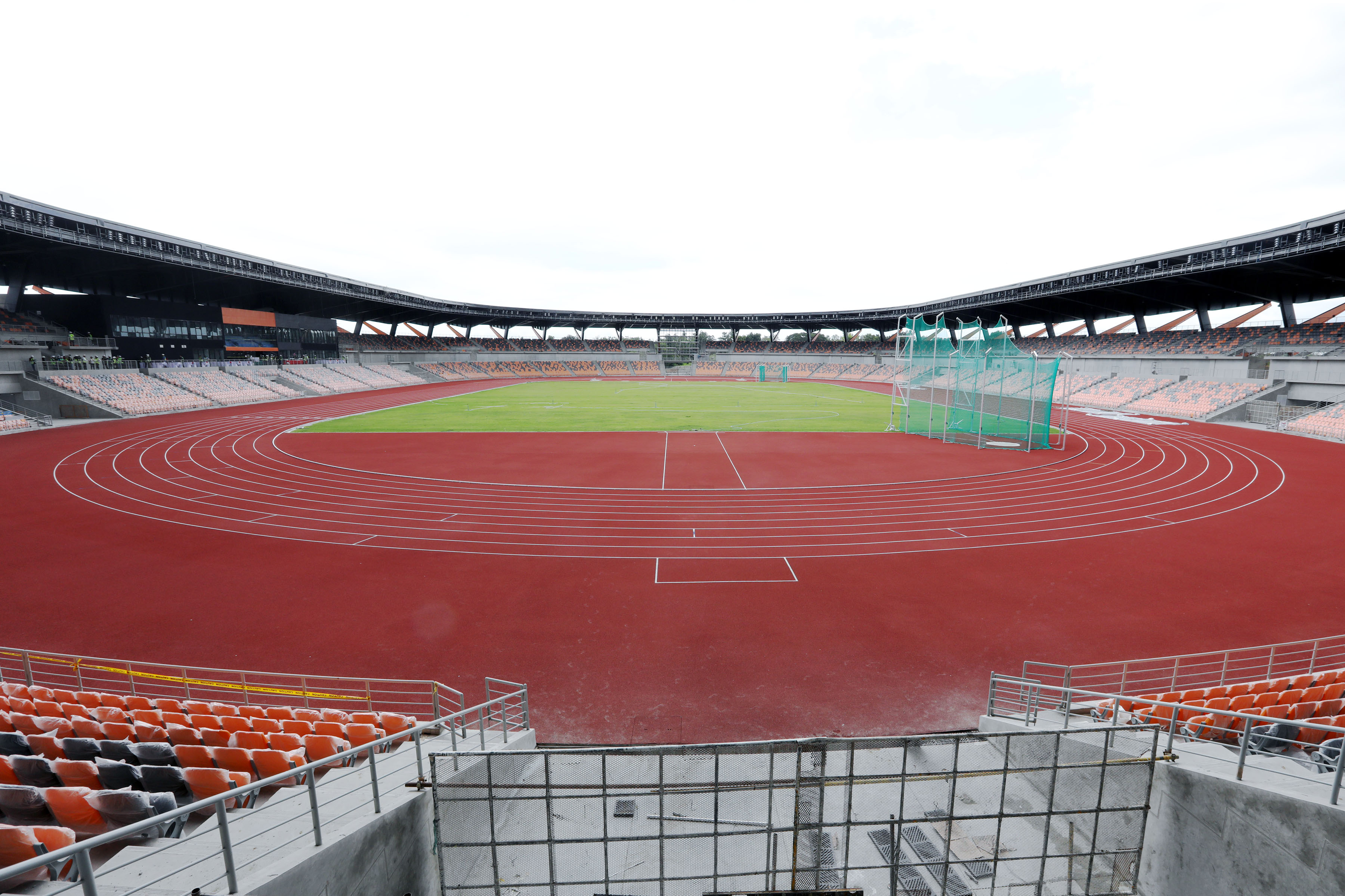 ATHLETIC STADIUM. The Athletic Stadium of the New Clark City sports complex in New Clark City in Capas, Tarlac is expected to be finished by the end of August. The stadium was shown to members of the media by officials of the Bases Conversion and Development Authority during a familiarization tour on Friday (July 19, 2019). The facility will serve as the hub of the 30th Southeast Asian Games slated to be held on November 30, 2019 to December 11, 2019.